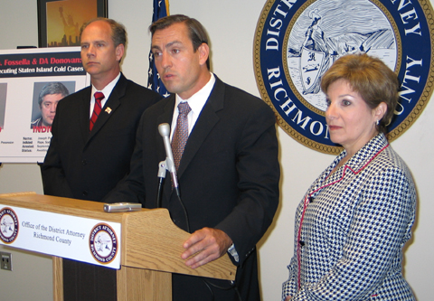 Congressman Vito Fossella Meets with District Attorney Dan Donovan and Yolanda Rudich To Announce Support for Federal Legislation to Prosecute Cold Cases